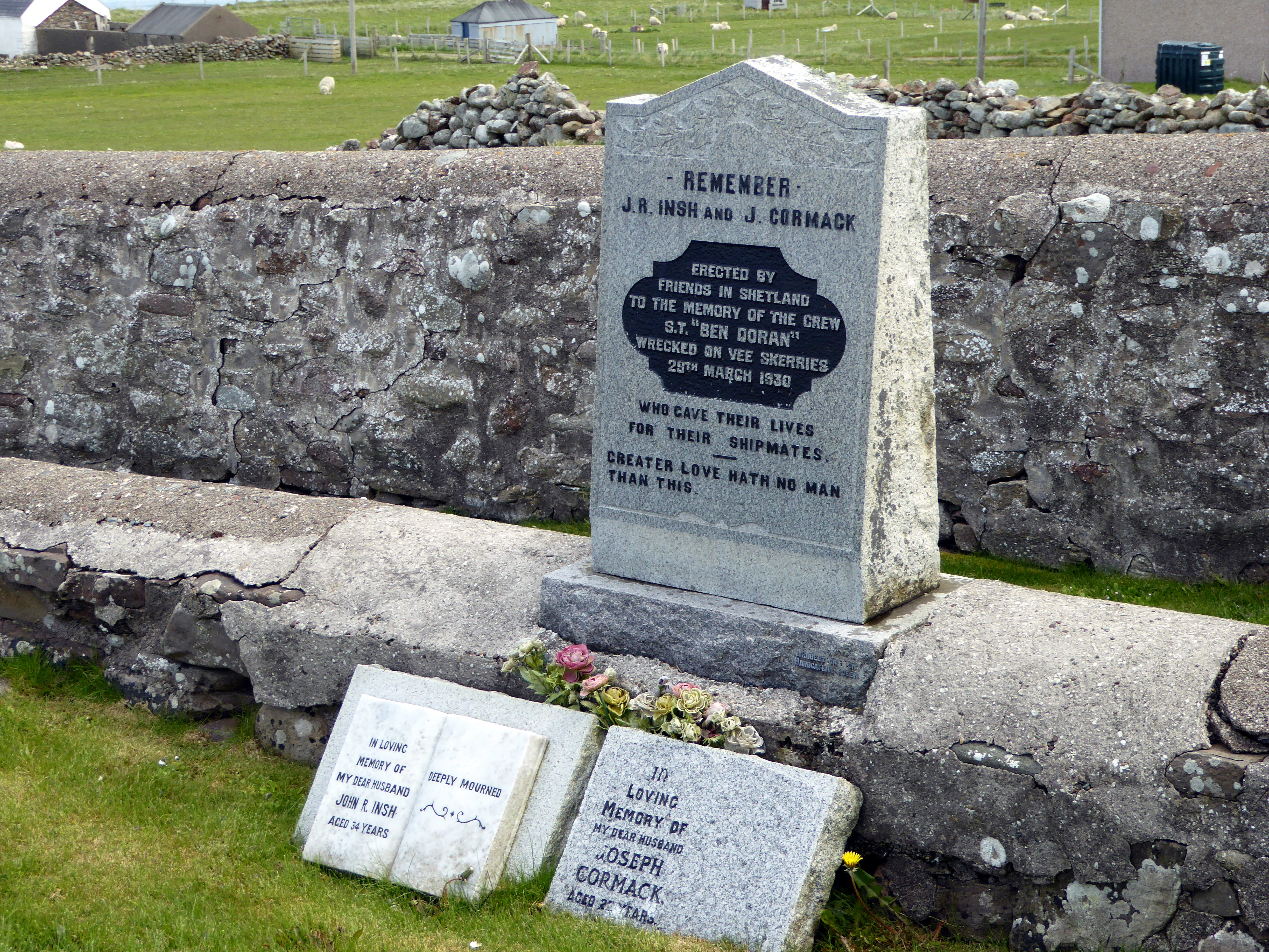 The main tombstone reads: REMEMBER J.R. INSCH AND J. CORMACK ERECTED BY FRIENDS IN SHETLAND TO THE MEMORY OF THE CREW S.T. "BEN DORAN" WRECKED ON VEE SKERRIES 29TH MARCH 1930 WHO GAVE THEIR LIVES FOR THEIR SHIPMATES GREATER LOVE HAS NO MAN THAN THIS